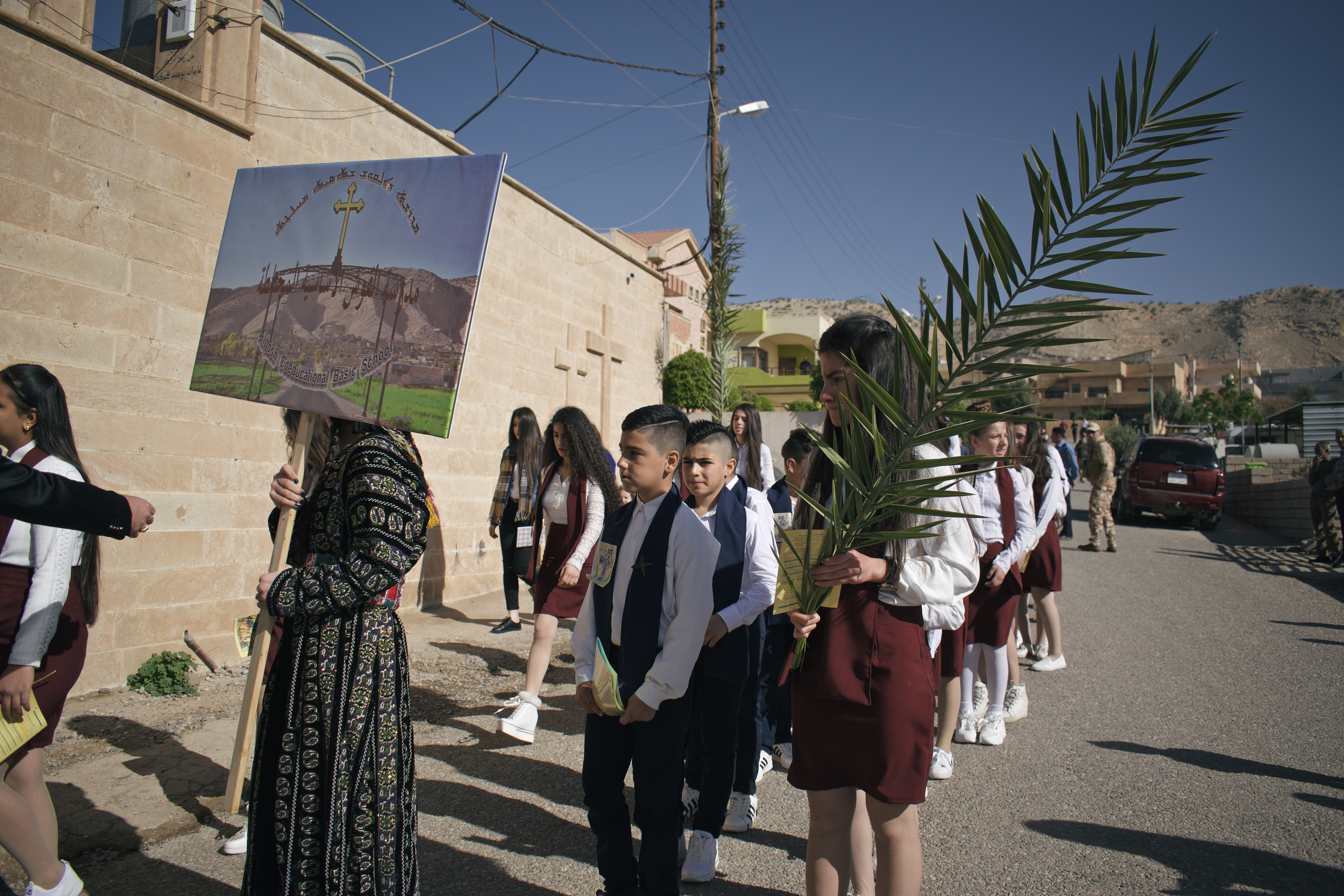 Views of the Palm Sunday celebration in 2018 in alQosh